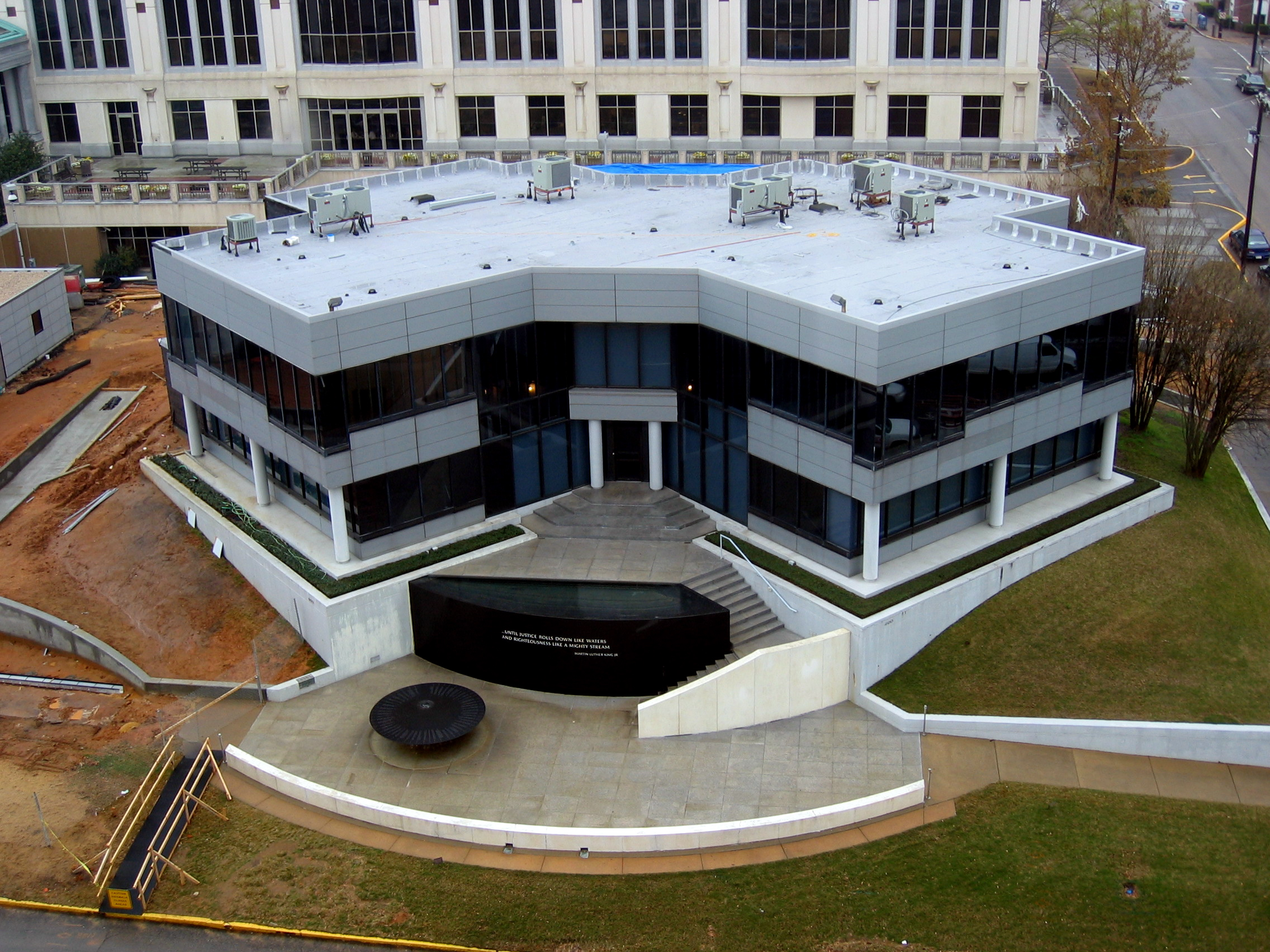 the new center being build by the splccivil rights memorial